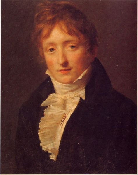 Michele Giuseppe Francesco Antonio Benso di Cavour (1781-1850) father of Count Camillo Benso di Cavour (1810-1861).